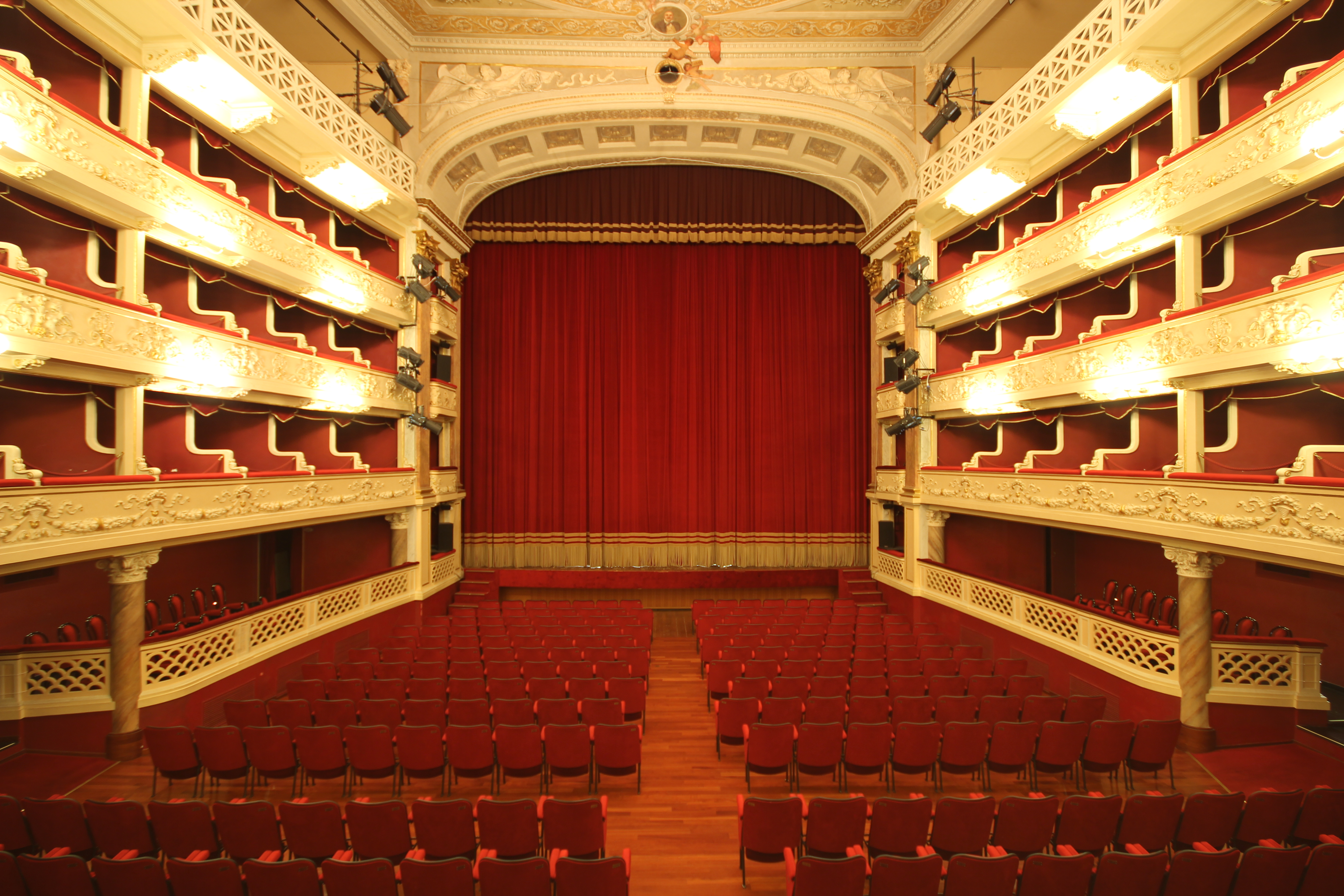 particolare del teatro This is a photo of a monument which is part of cultural heritage of Italy.